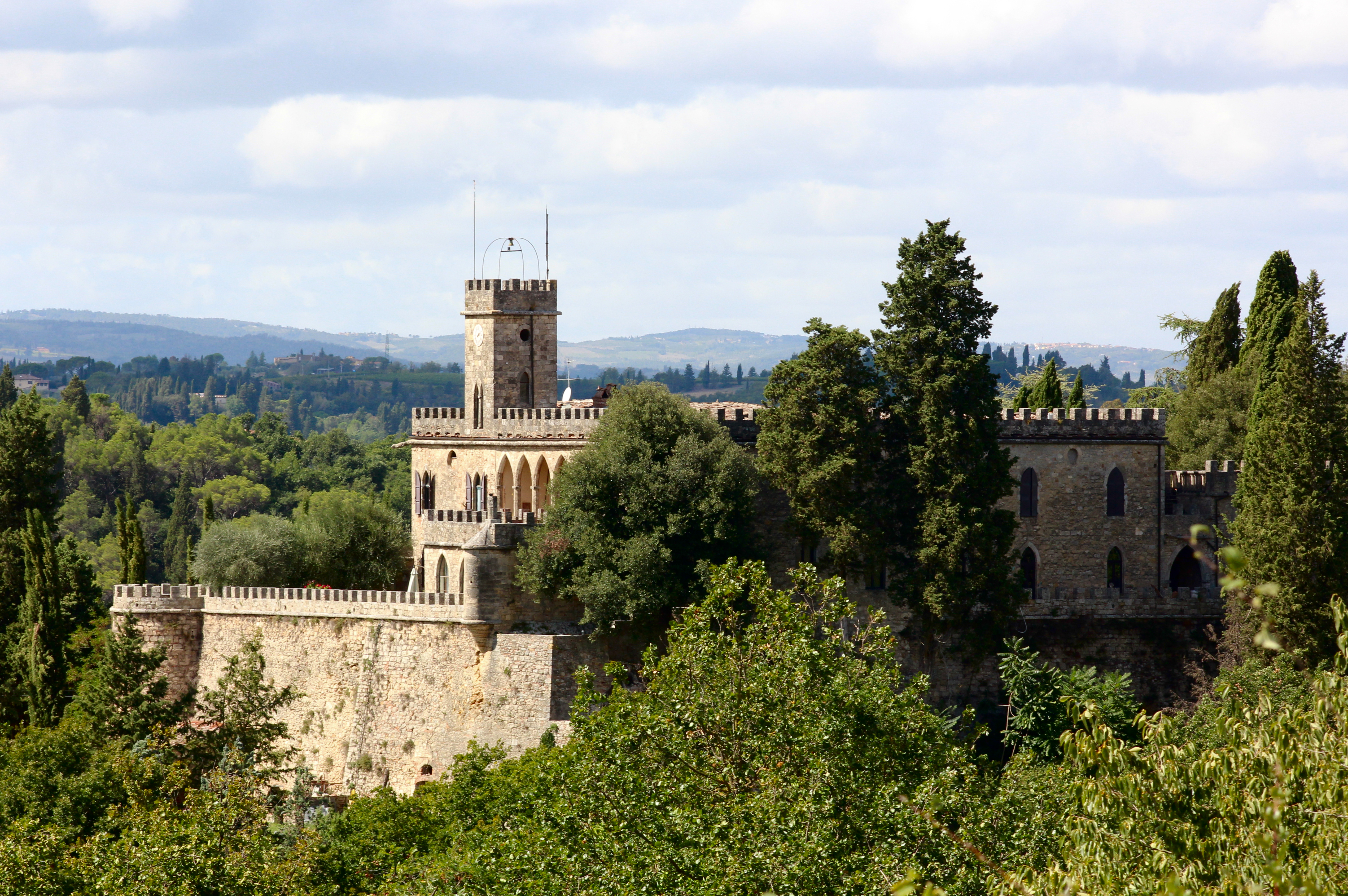 Castle and Villa Castello della Badia (Castello di Badia), Poggio Marturi, Poggibonsi, Val d'Elsa, Province of Siena, Tuscany, Italy